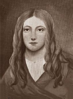 Annie Rebekah Smith, early Seventh-day Adventist hymn writer. Self-portrait?